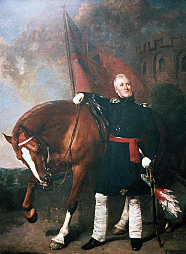 Sir Thomas Buckler Lethbridge (1778–1849) of Sandhill Park, Somerset. 1839 portrait by Thomas Mogford of Exeter, Devon, showing him wearing the uniform of Colonel Commandant of the West Somerset Yeomanry. Originally displayed at the Royal Academy of Arts in 1839.